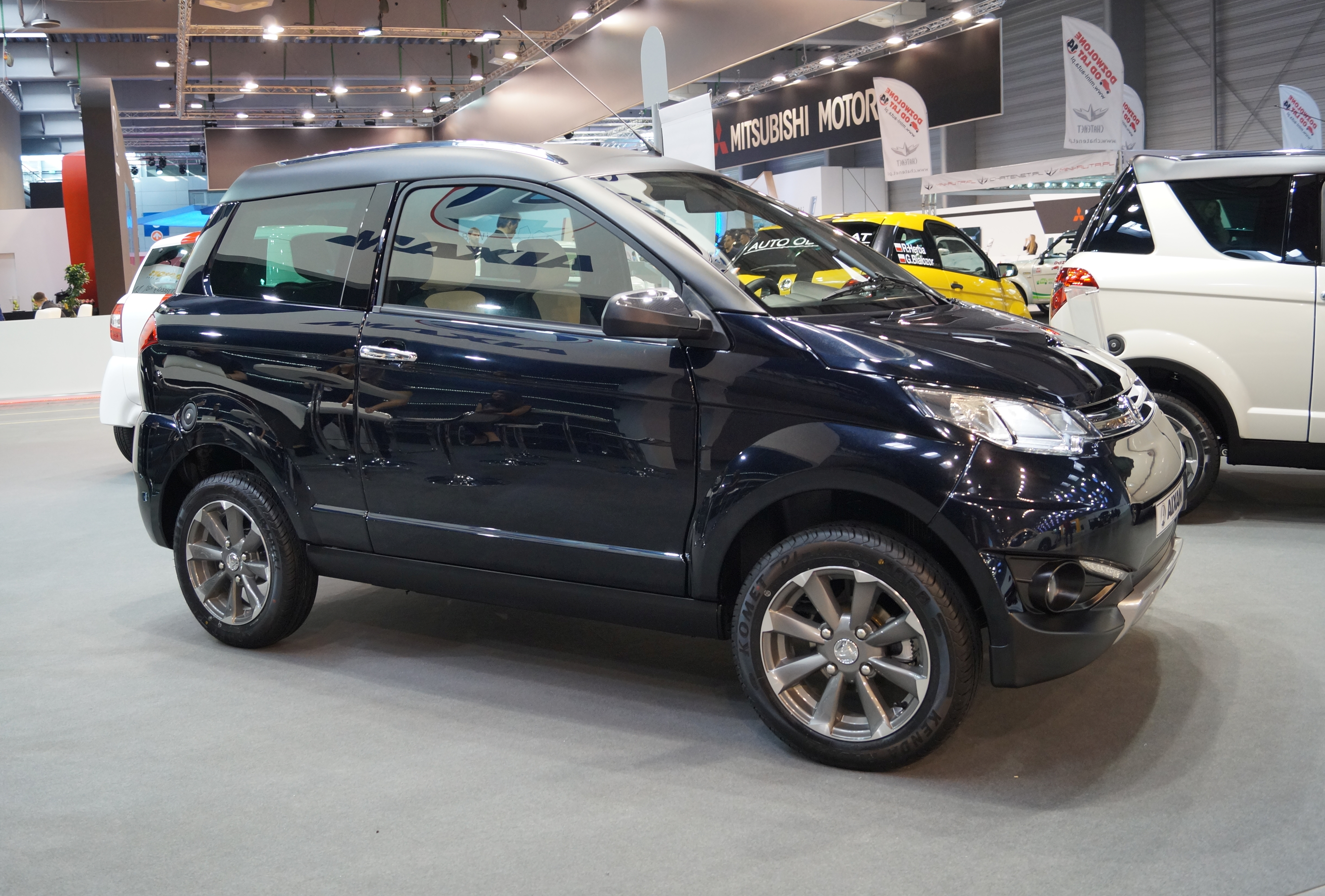 The making of this document was supported by Wikimedia Polska Association, within Wikigrant no. WG 2015-19. Przód Aixama Crossover GTR na Motor Show Poznań 2015